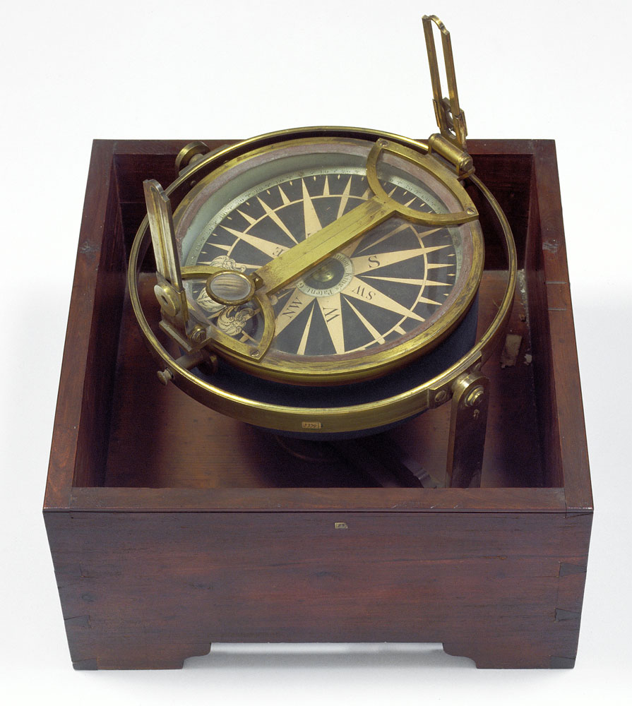 Author George WrightDescription